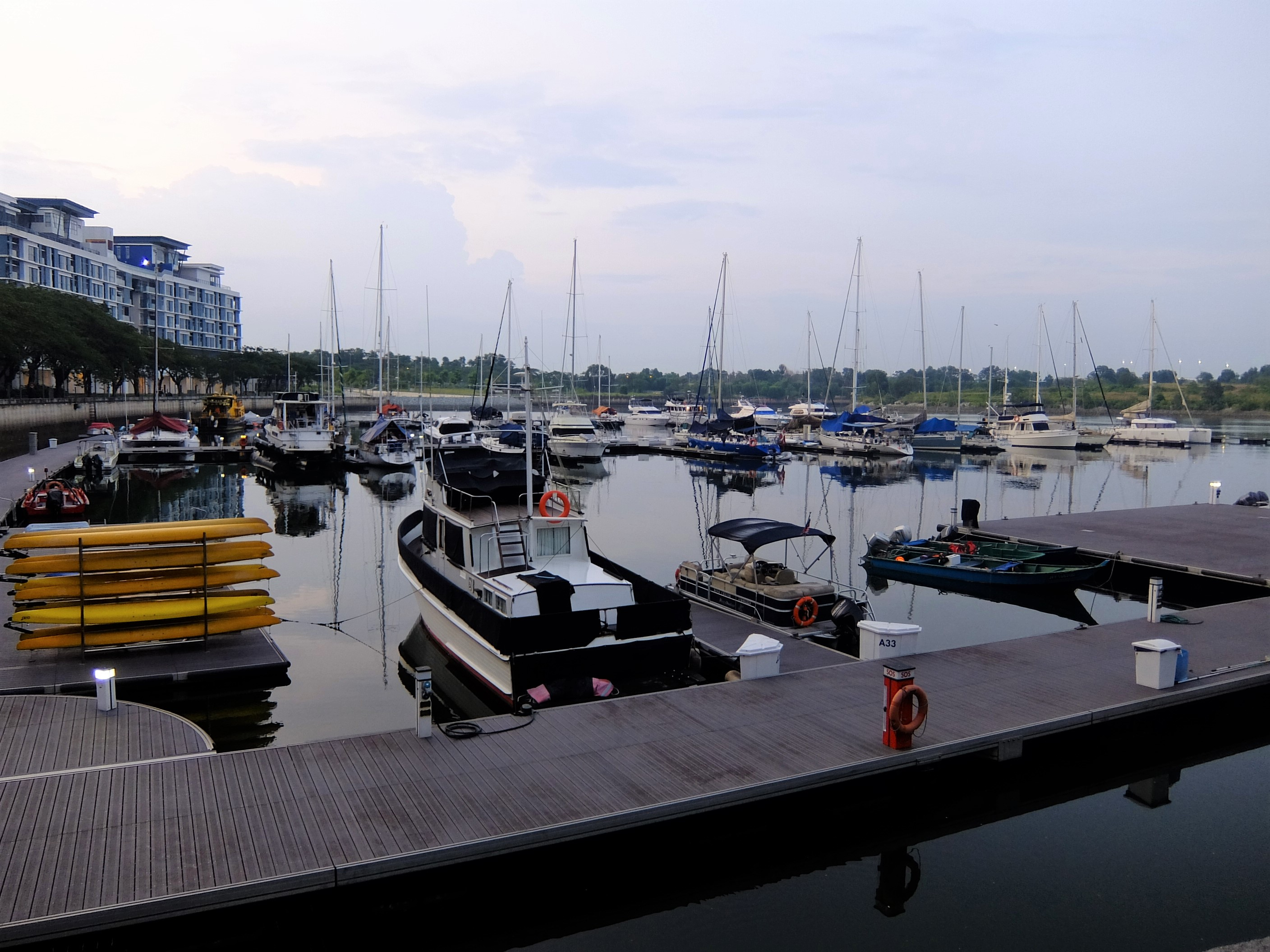 Puteri Harbour Marina, Puteri Harbour, Iskandar Puteri, Johor Bahru, Johor, Malaysia